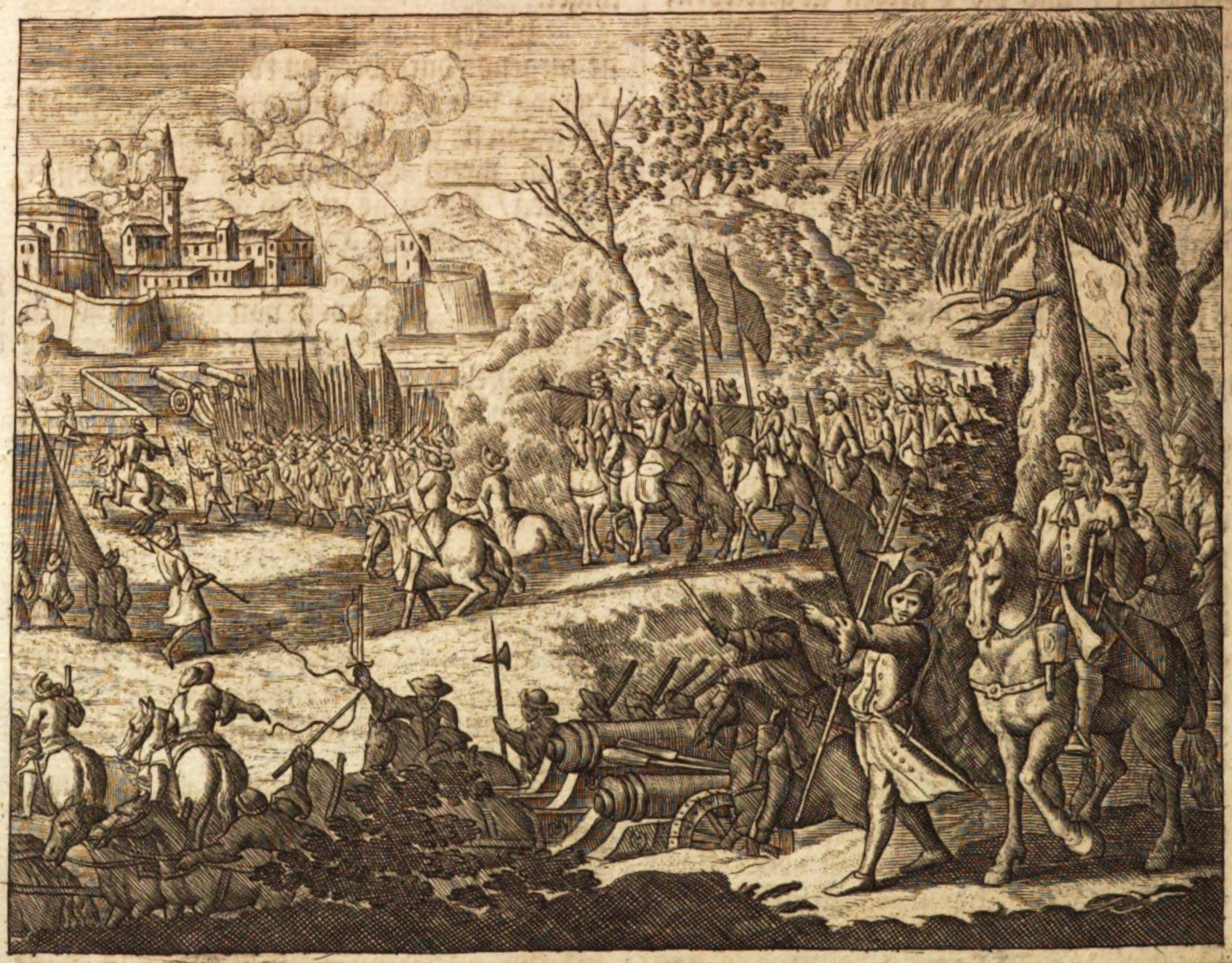 Engraving of the Siege of Niš in 1689.